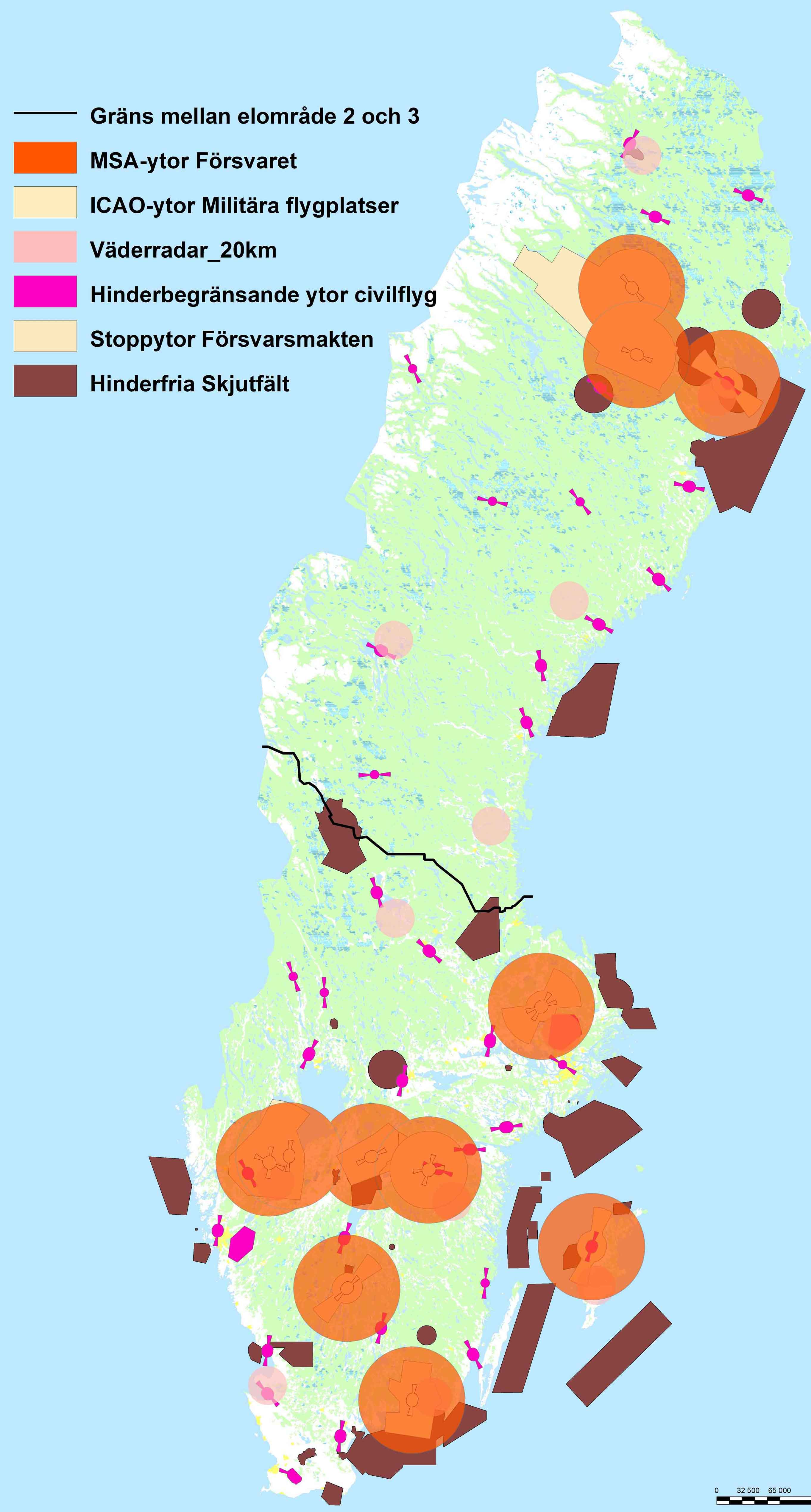 Military restriction on wind power in Sweden